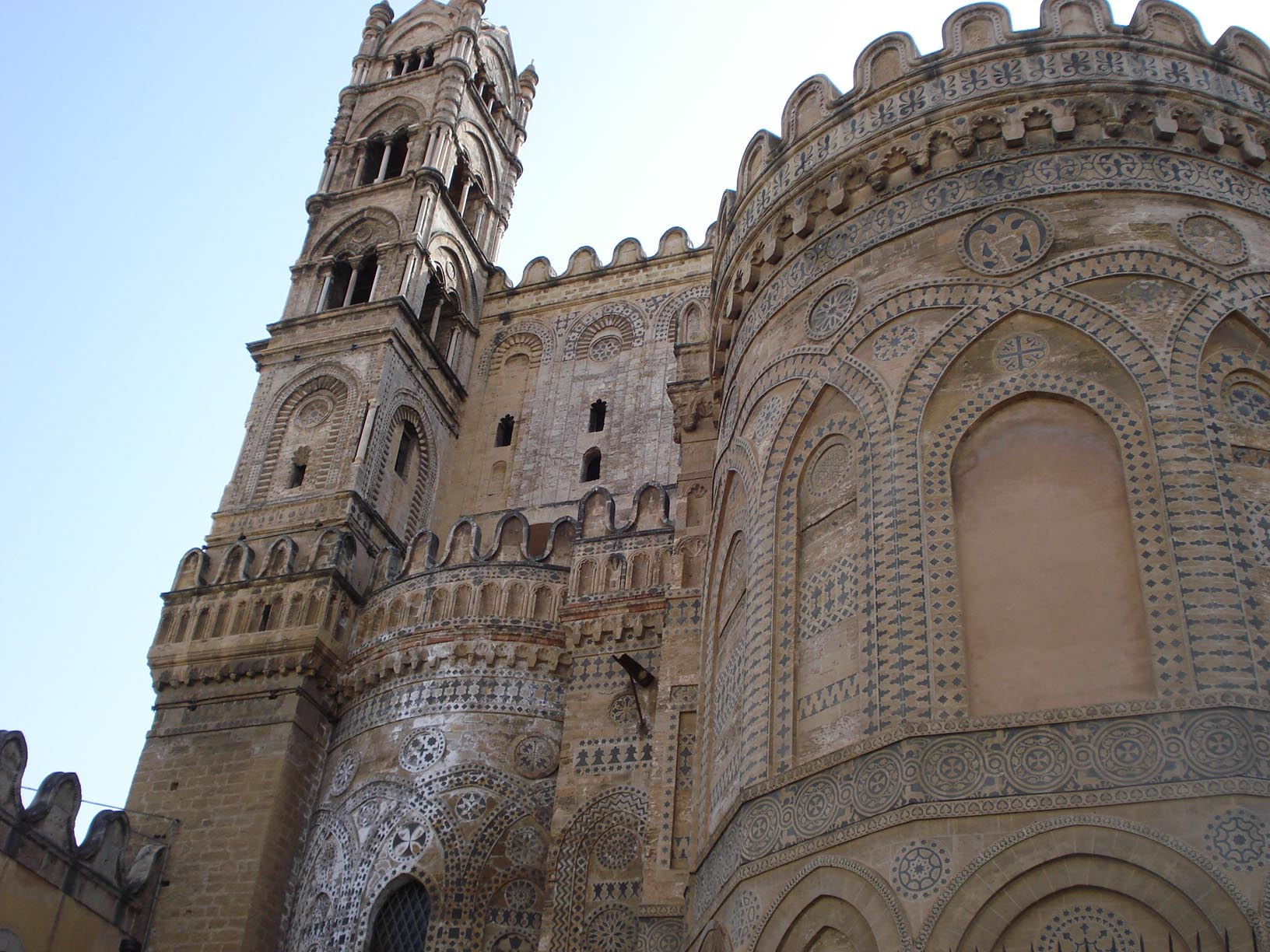 Palermo Cathedral apse